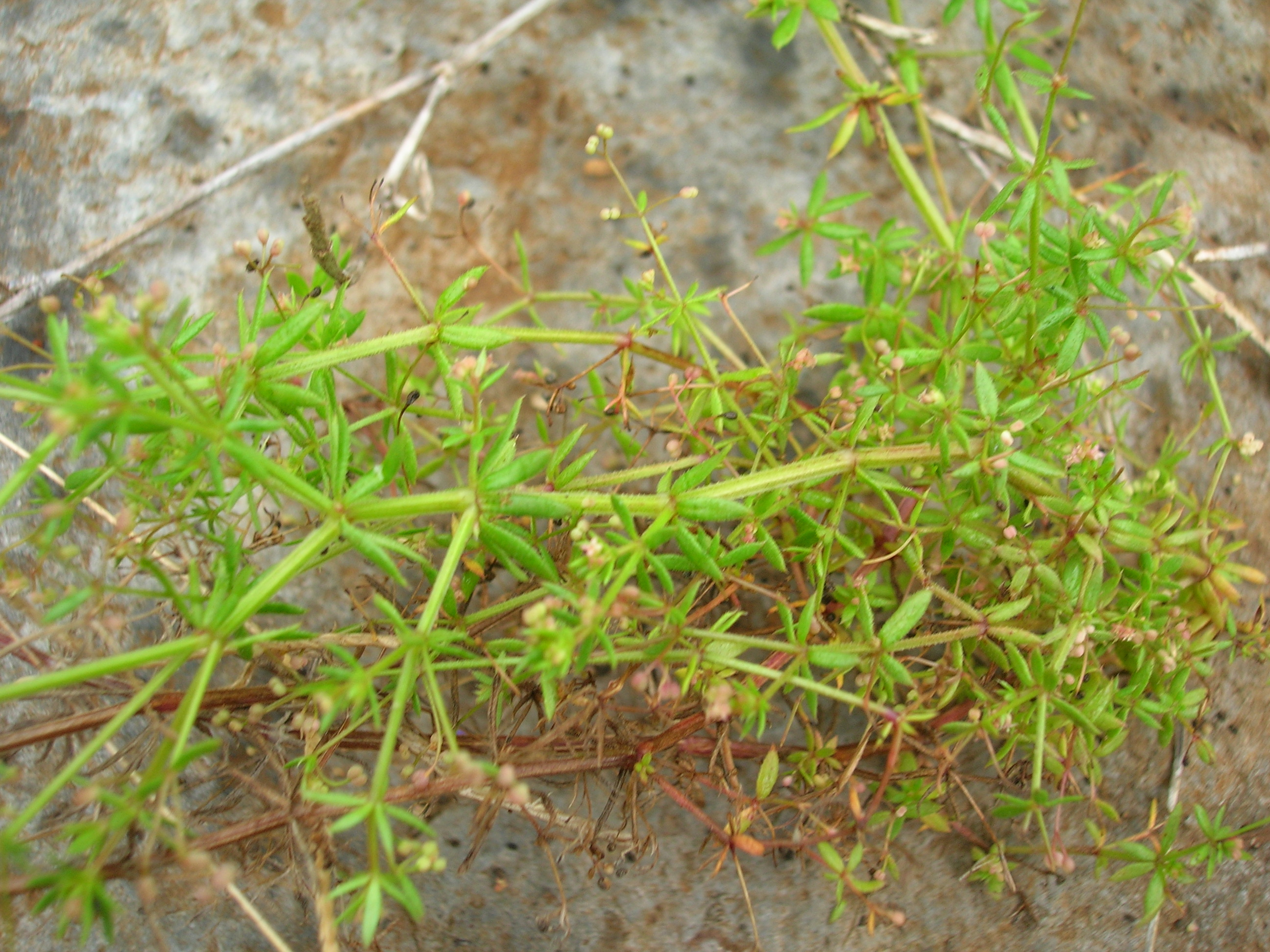 Galium divaricatum (habit). Location: Maui, Haleakala Ranch